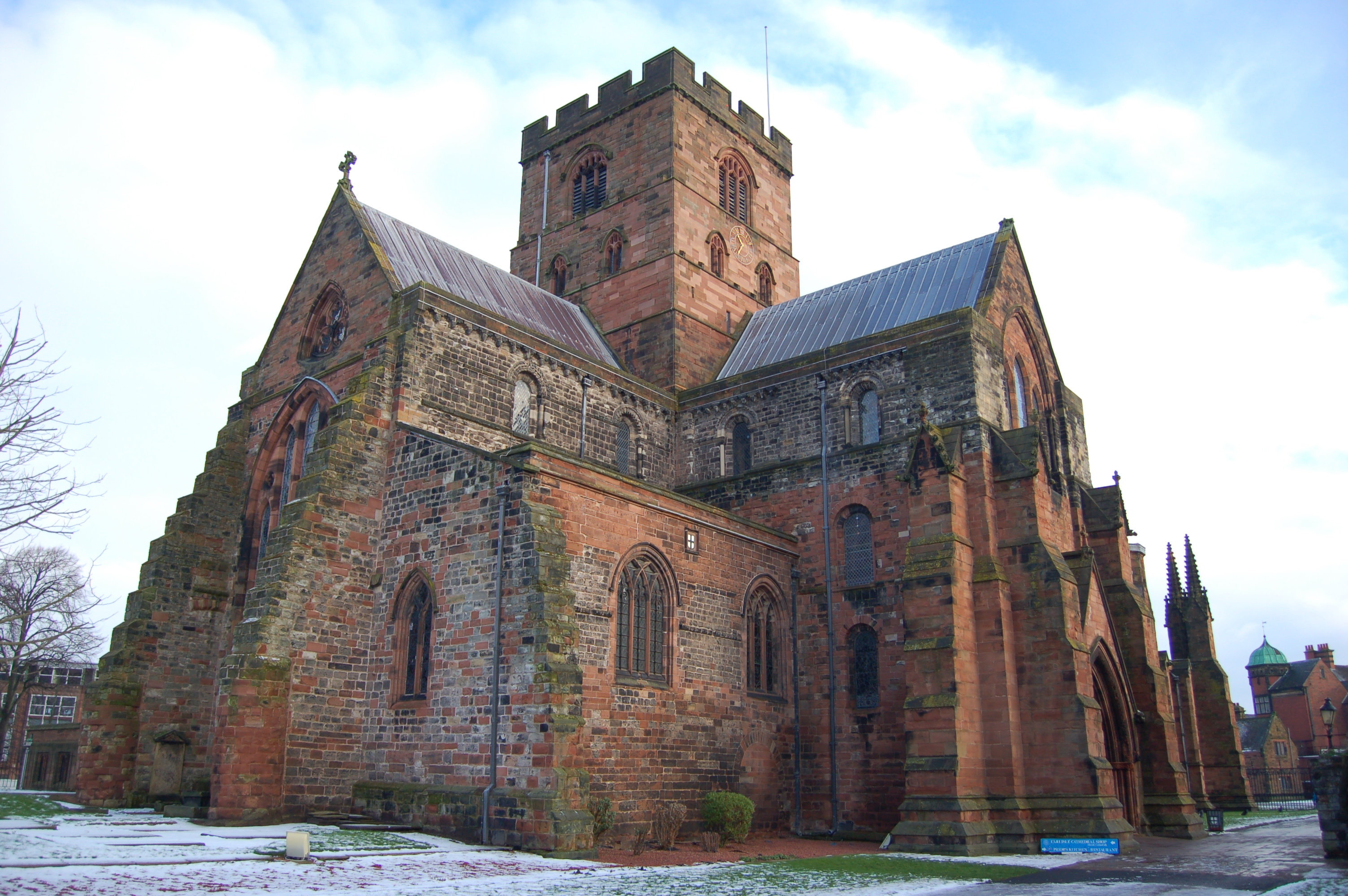 Photograph Carlisle Cathedral in the snow